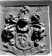 Domik_Petra